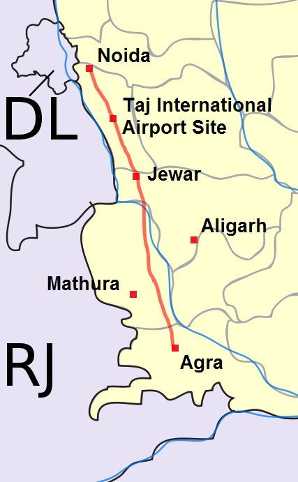 Yamuna Expressway Detailed Map